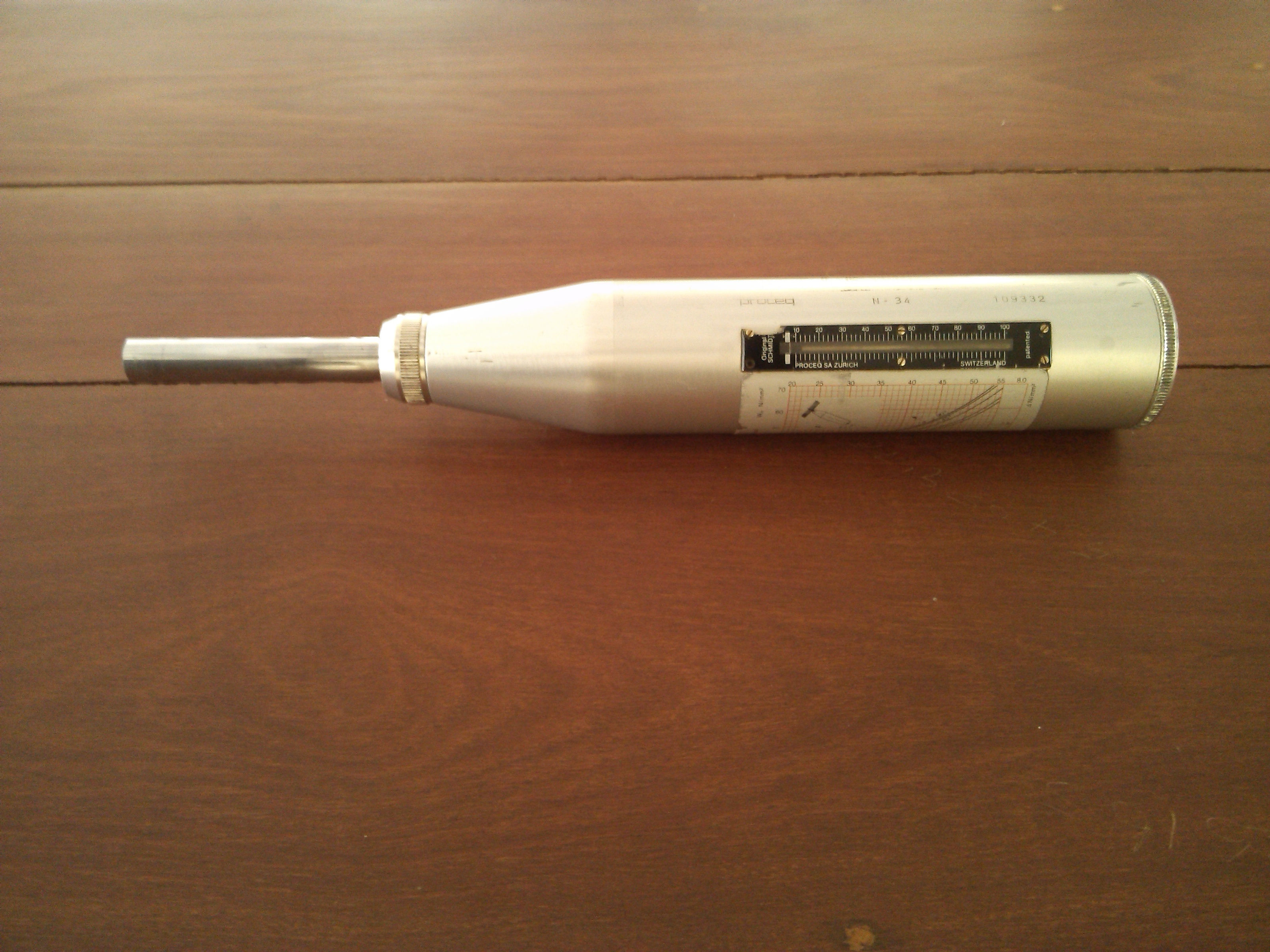 Schmidt hammer is used for testing the compressive strength of concrete or stone. It was developed by Ernst Schmidt, a Swiss engineer.